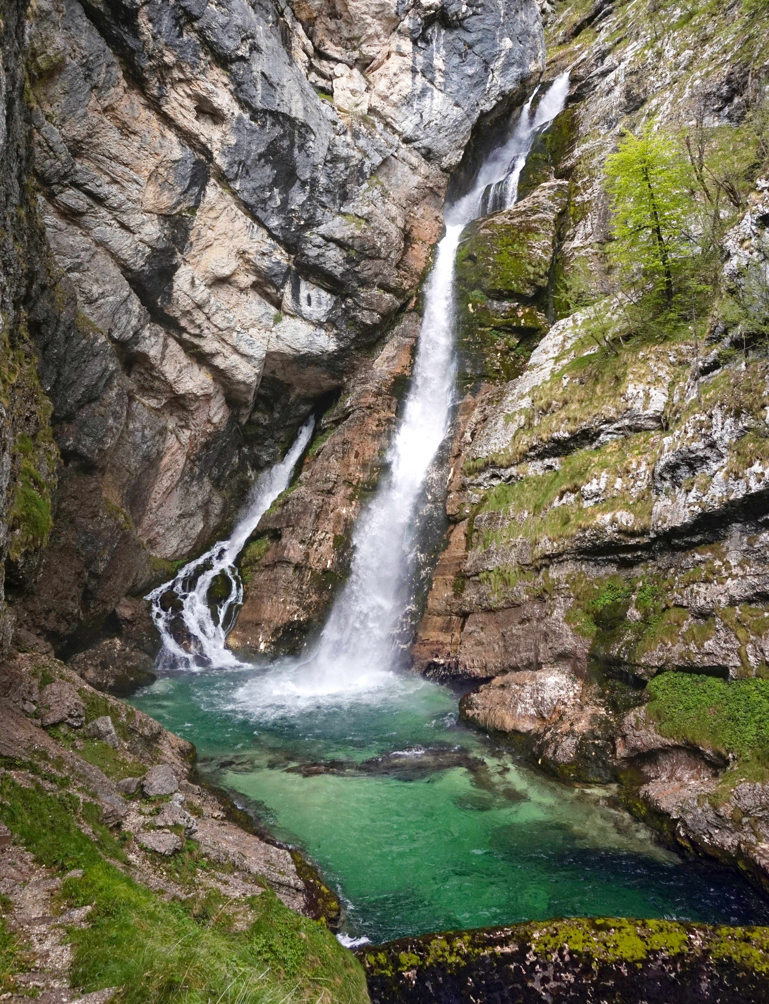 Savica waterfall in Ukanc, Slovenia. This photograph was taken with a Sony Alpha a5000.